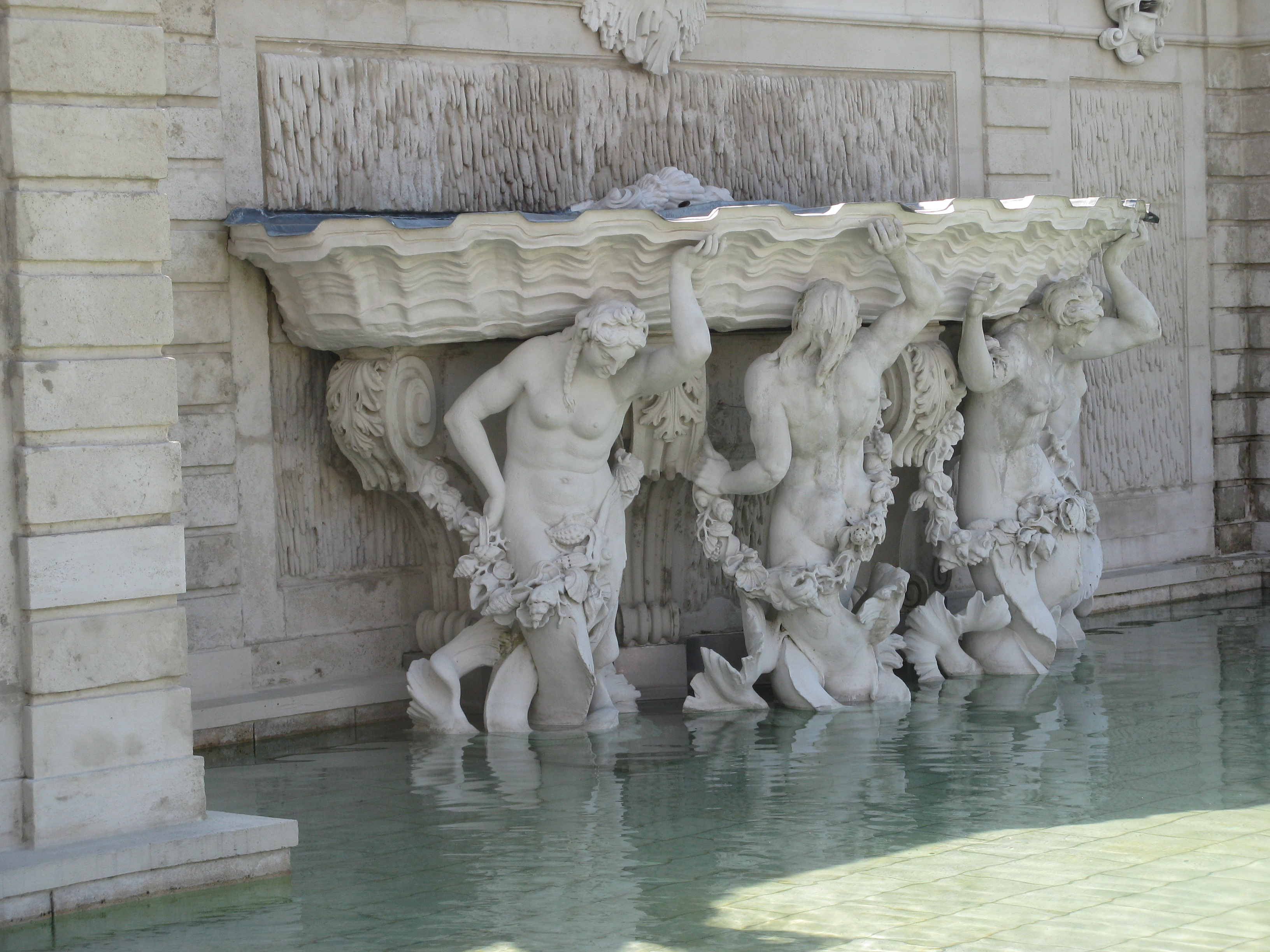 Fountain at Gardens of the Belvedere